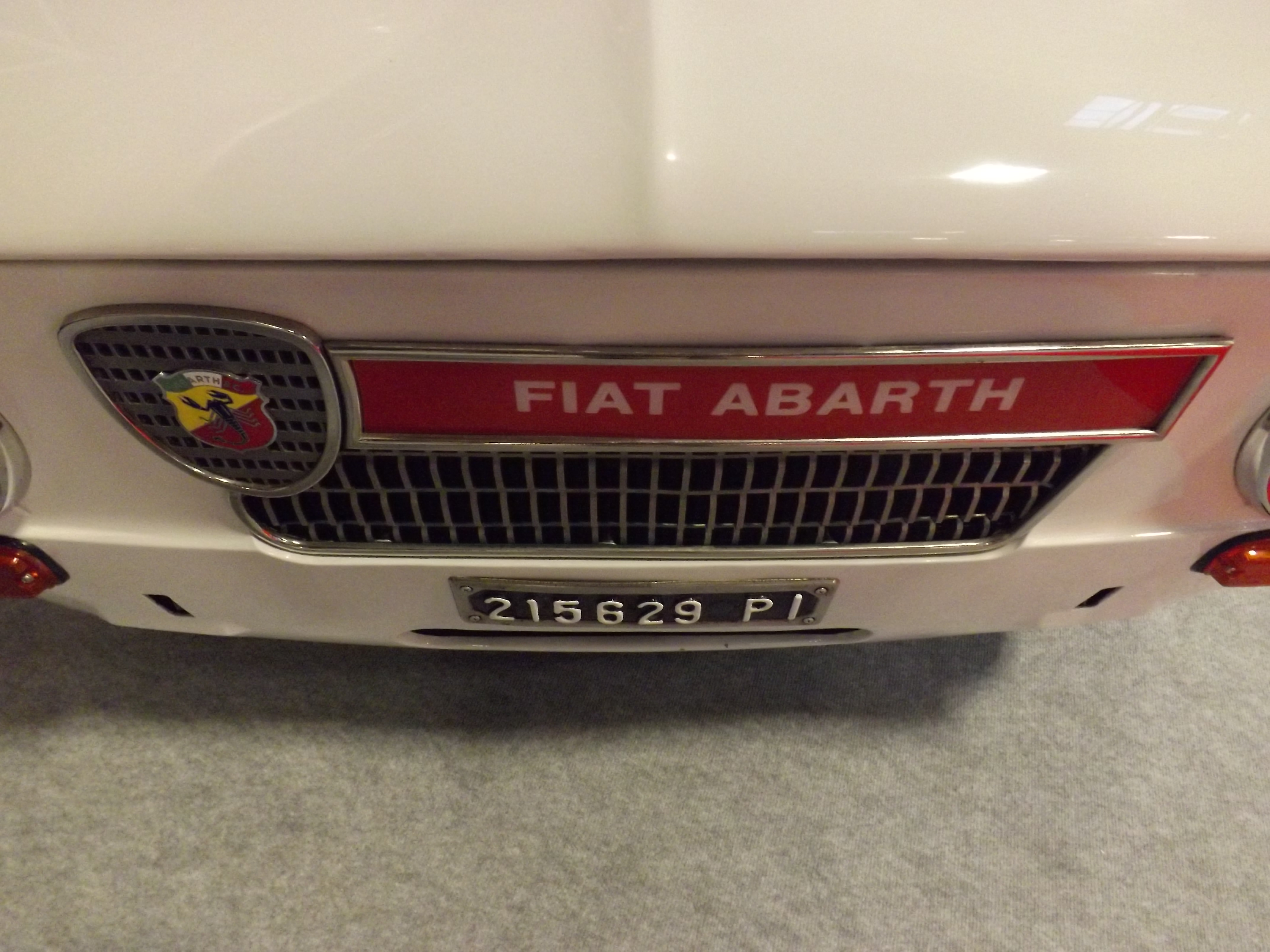 Gorgeous.